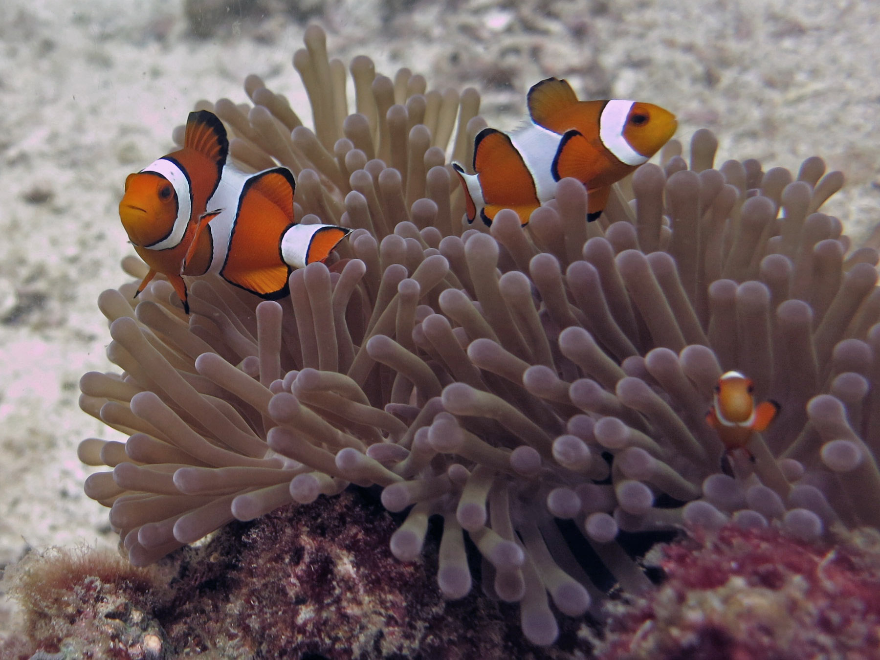 2015 01 Koh Lanta 35 happy family